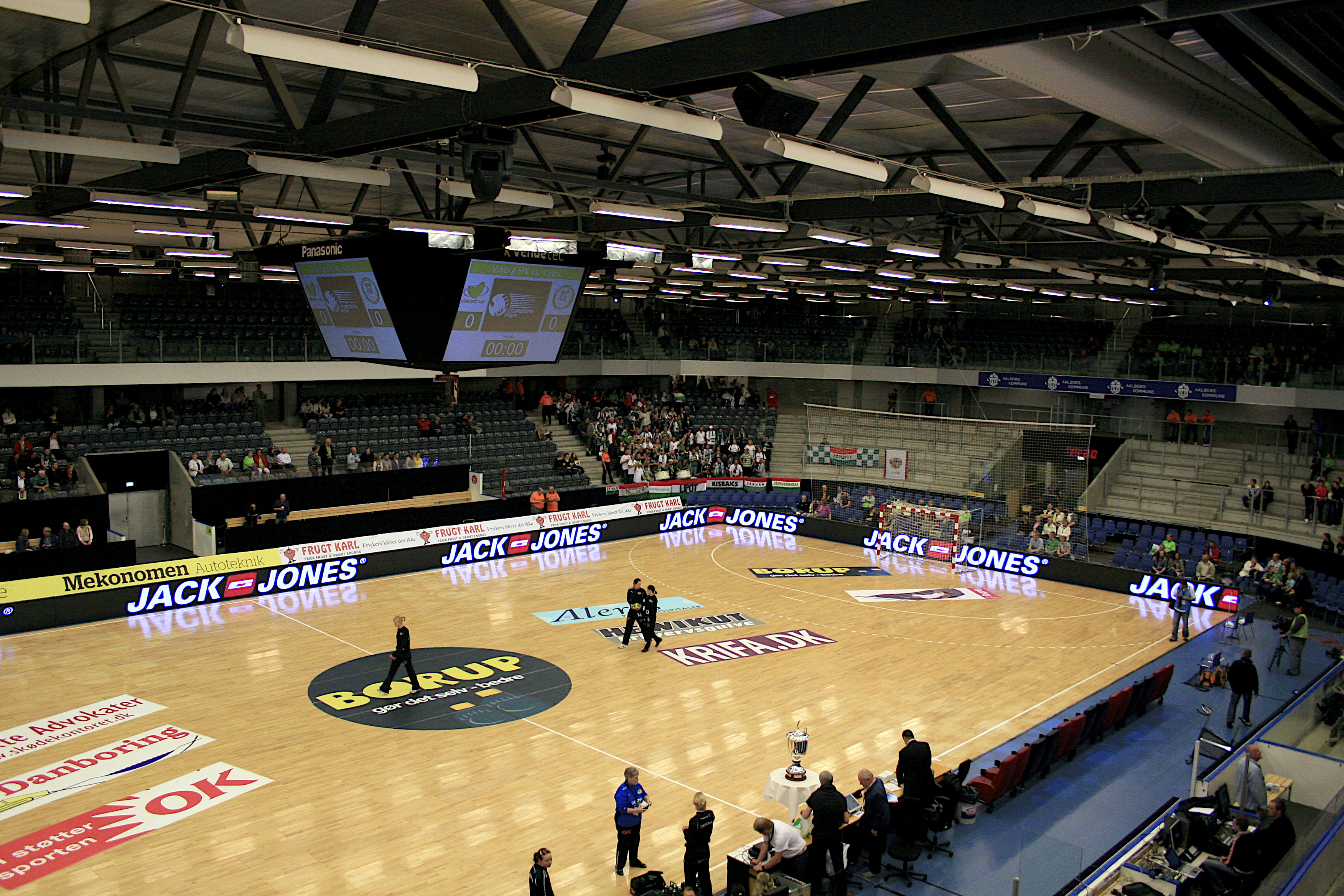 Gigantium Ice-arena converted for handball.